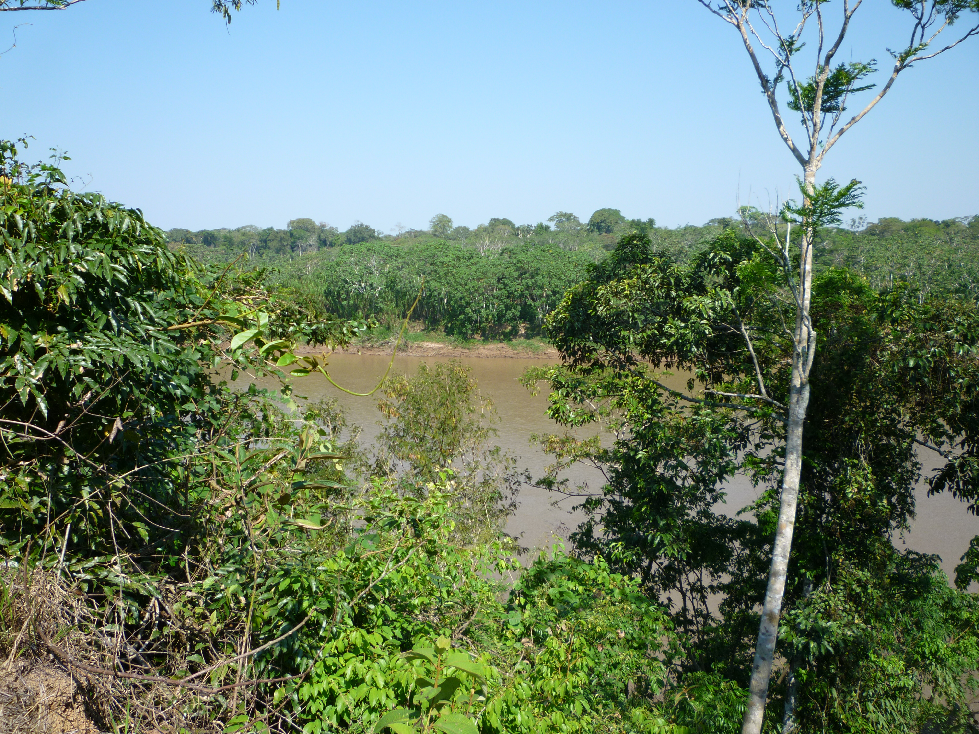 Picture of the Tambopata river in the Amazon Jungle in Peru